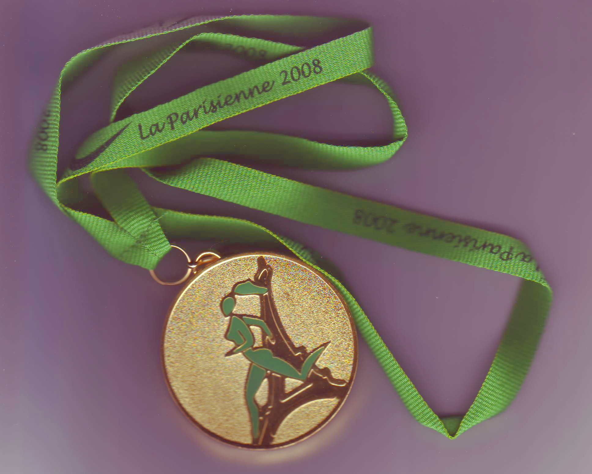 medal of the race "La Parisienne", 2008 - Paris - France.